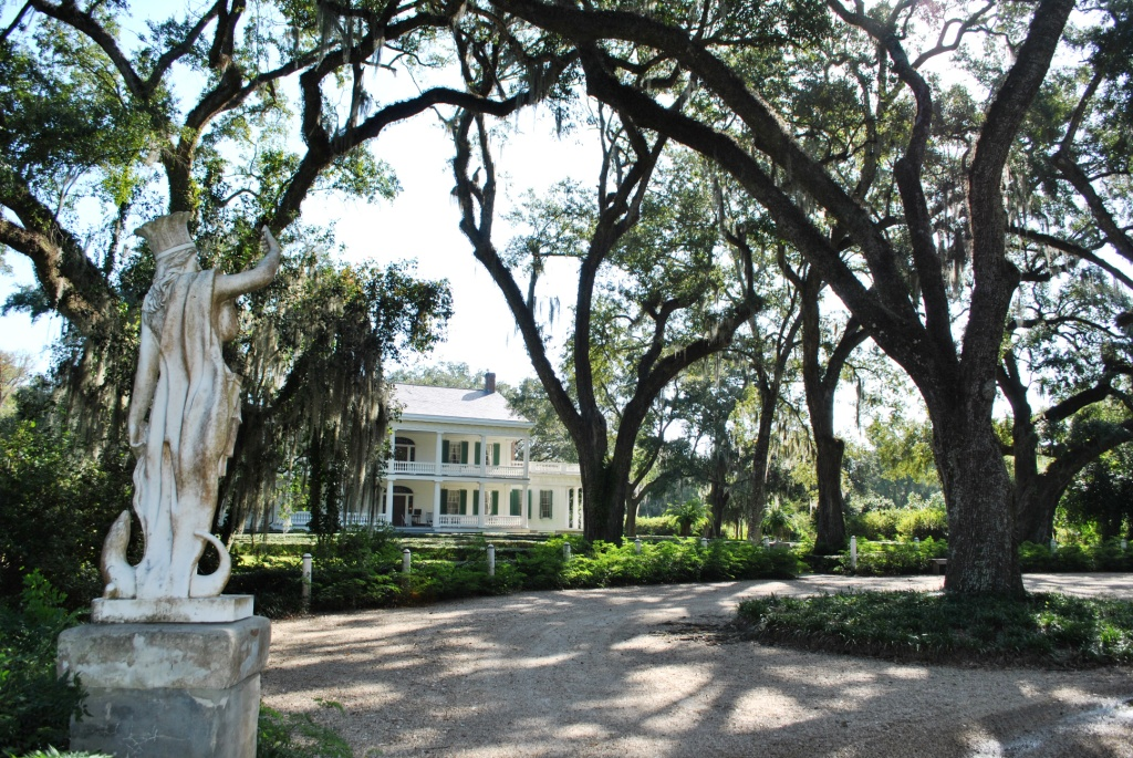 Rosedown Plantation, U.S. Route 61 and Louisiana Highway 10 St. Francisville